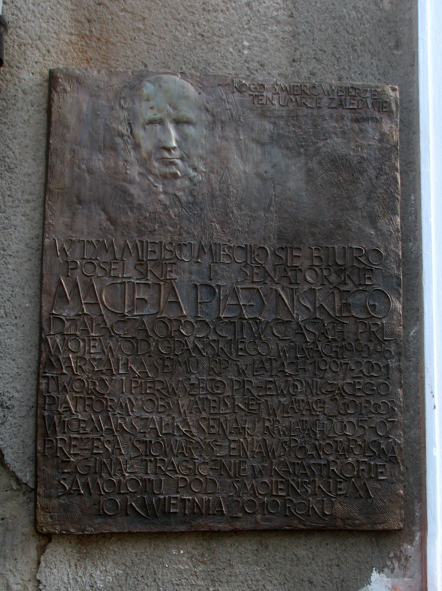 Plaque to Maciej Płażyński on his former office in Gdańsk. Political opinion of uploader is secret.